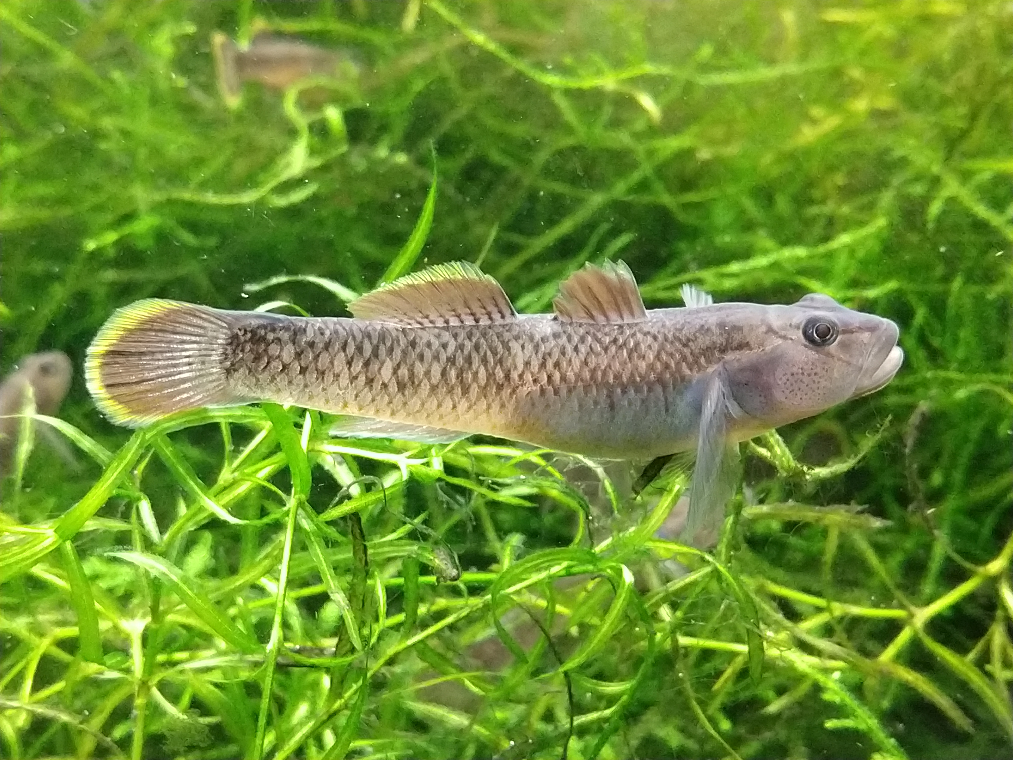 Tank-raised Rhinogobius delicatus, about 15 months old, about 10cm long